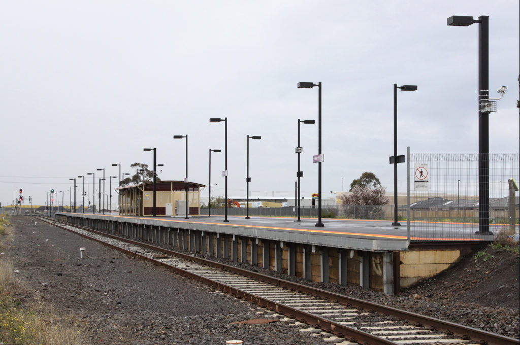 Deer Park railway station, Melbourne